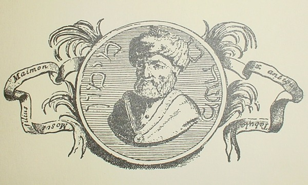 The purported portrait of Maimonides from which all modern portraits are derived. It first appeared in volume 2 of Thesaurus antiquitatum sacrarum …in quibus veterum Hebraeorum mores, leges, instituta, ritus sacri, et civiles illustrantur… (Thesaurus of sacred antiquities in which are illustrated the customs, laws, institutions, sacred and civil rites of the ancient Hebrews…) a 34-volume Latin anthology on Judaism by Blasio Ugolini (b. ca. 1700), published in Venice by the house of Giovanni Giacomo Hertz from 1744 to 1769.